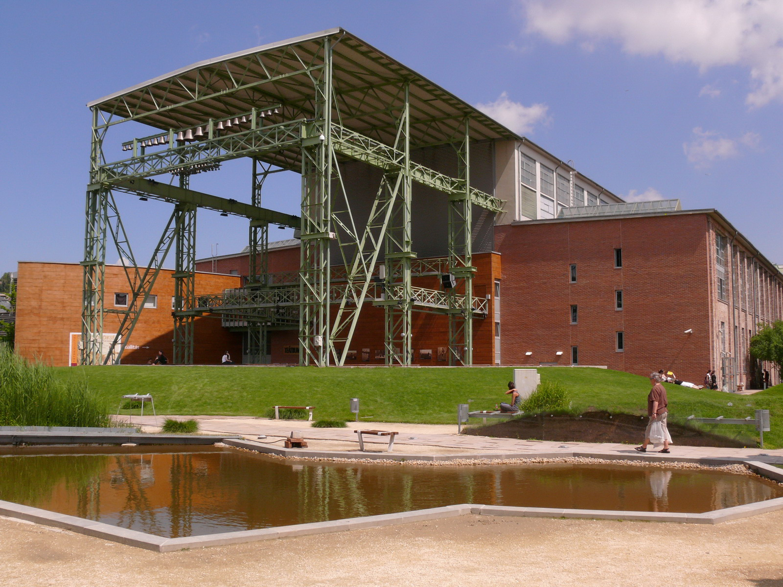 The Millenaire Theatre at Millenáris, Budapest